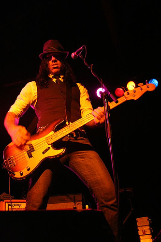 brian o'connor playing with the eagles of death metal live @ the glass house 02.08.06